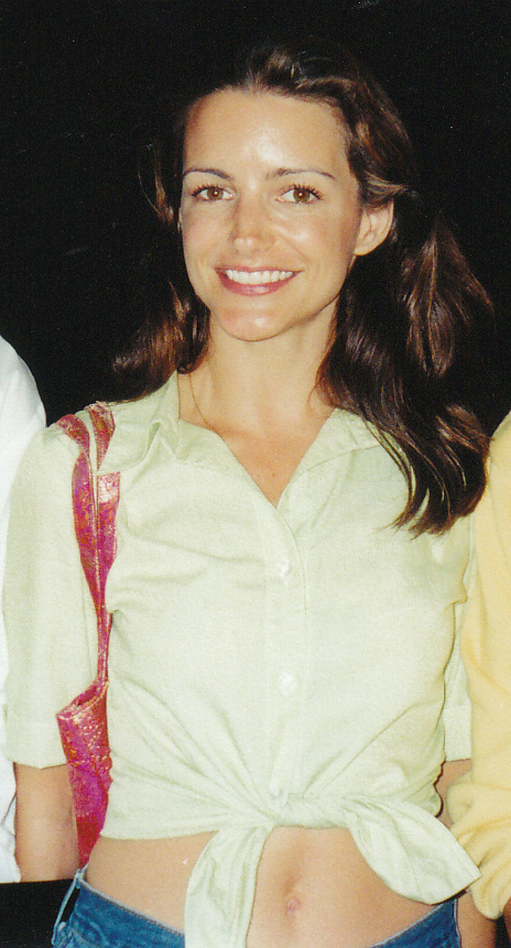 Photo of actress Kristin Davis, taken at the HBO party after the 1999 Emmy Awards.